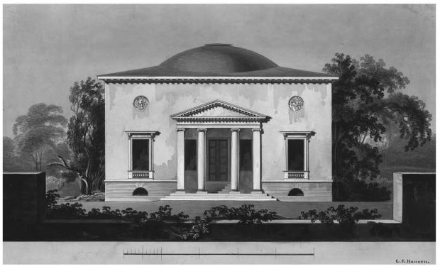 Facade, Elbchaussee 372, Nienstedten, Hamburg, This is a photograph of an architectural monument.